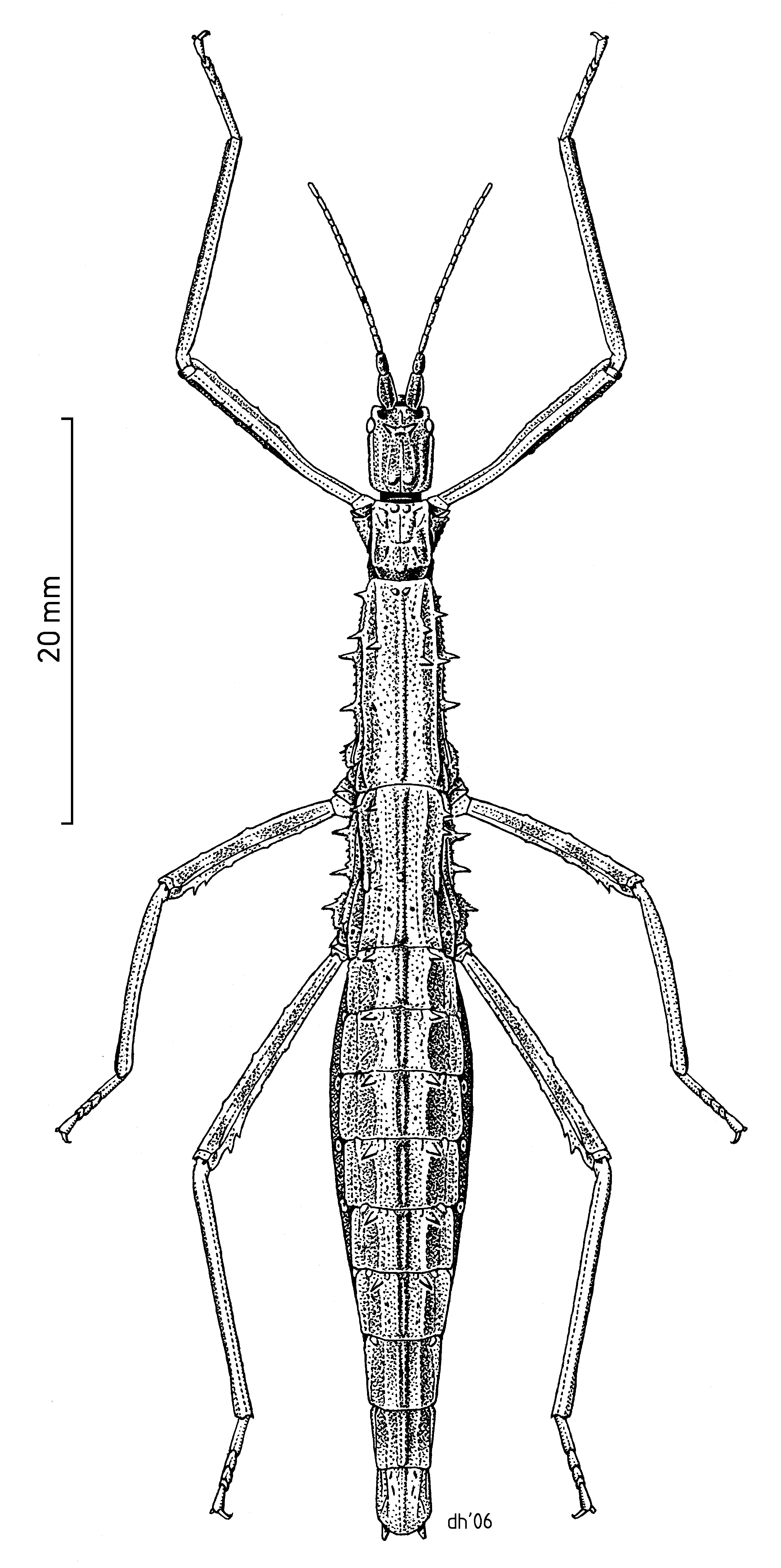 (Phasmatodea) Micrarchus n.sp. illustrated by Des Helmore.